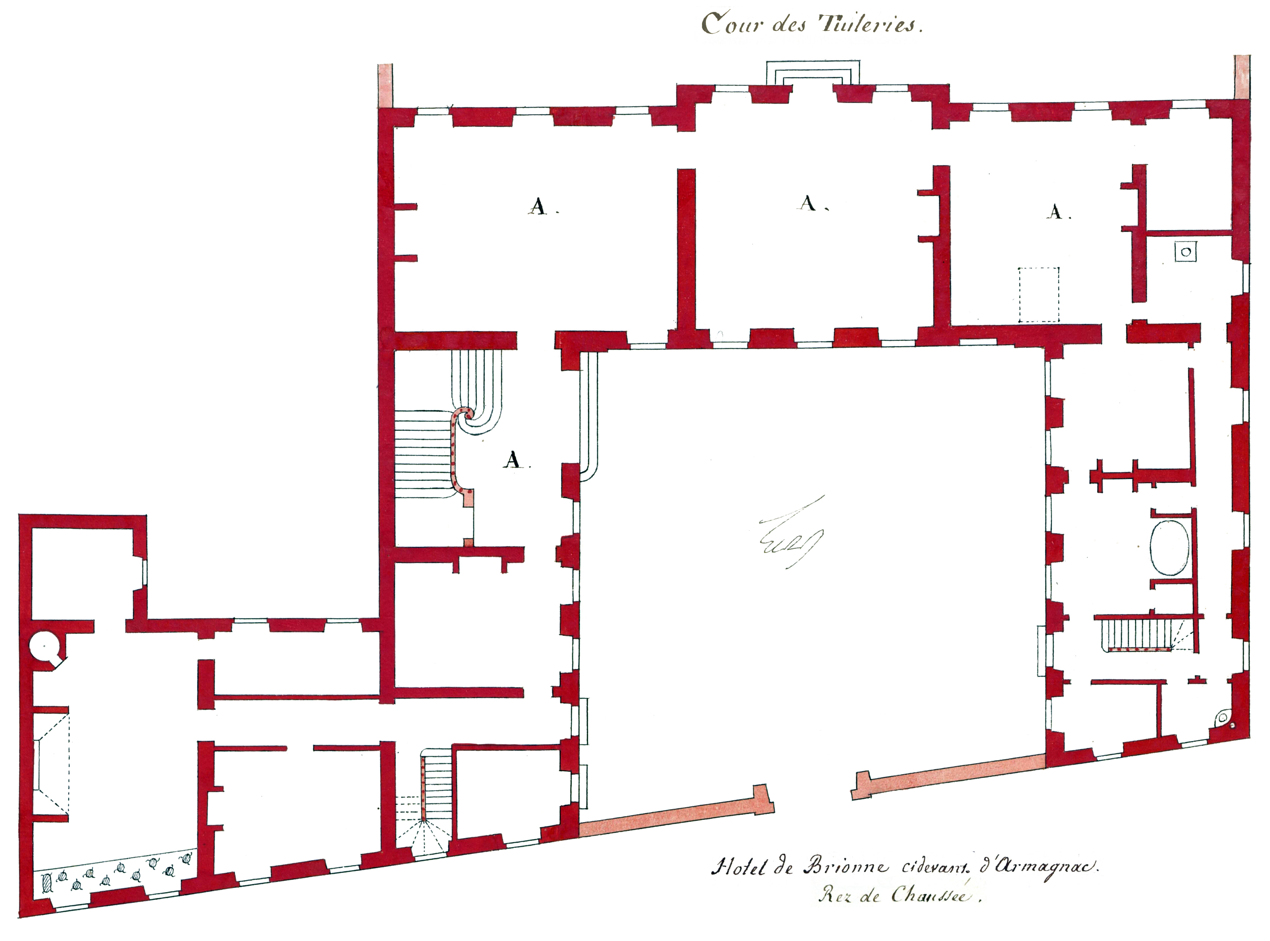 Project plan (variant 3) for the ground floor of the of the Hôtel de Brionne in Paris